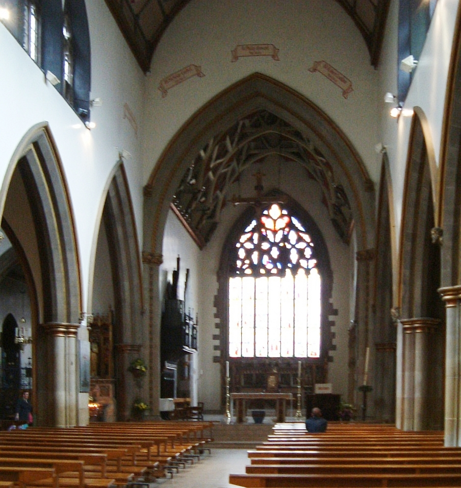 Inside St Marie's Cathedral, Sheffield. Taken by James@hopgrove, May 2006